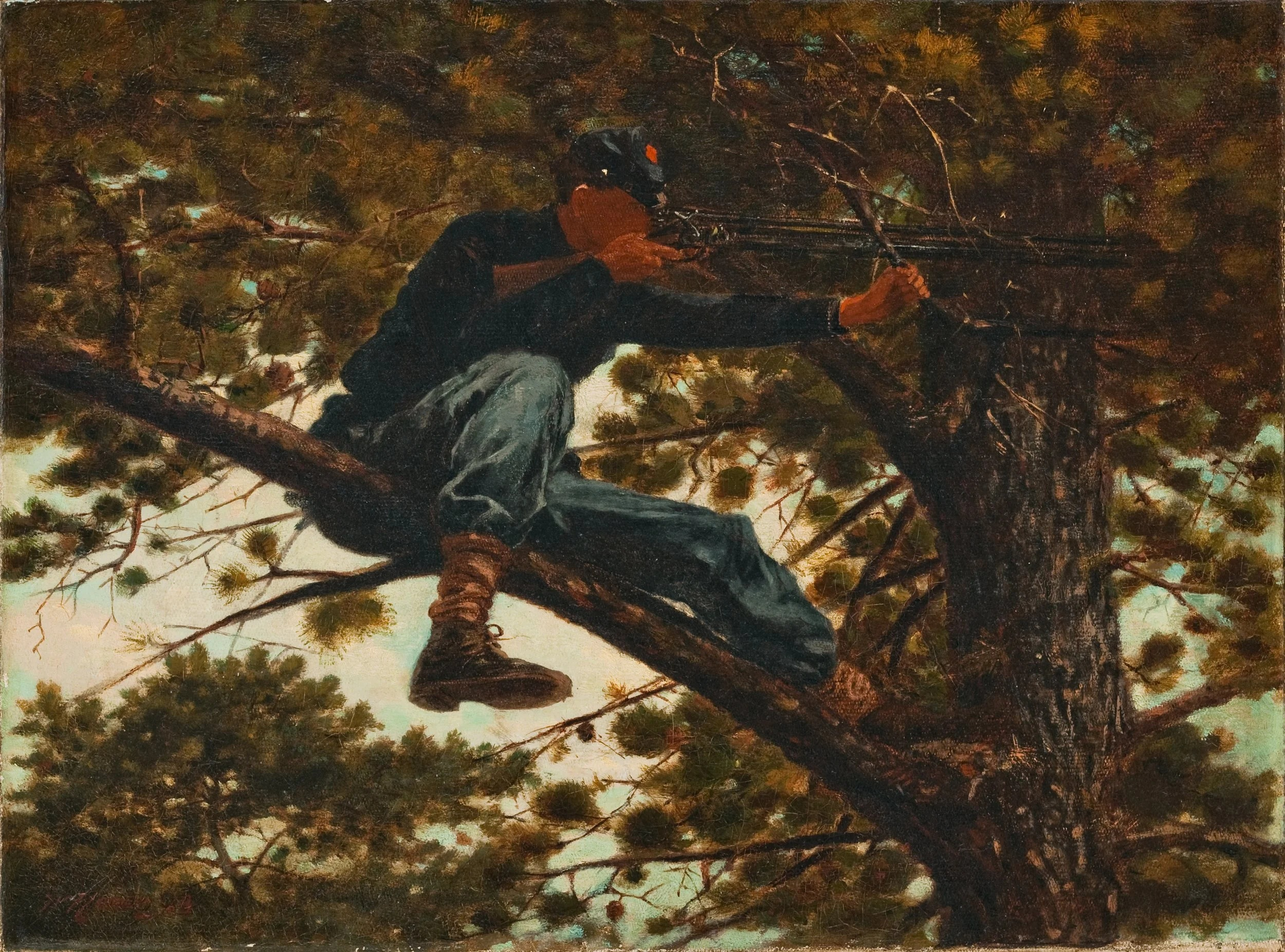 Homer's first war painting